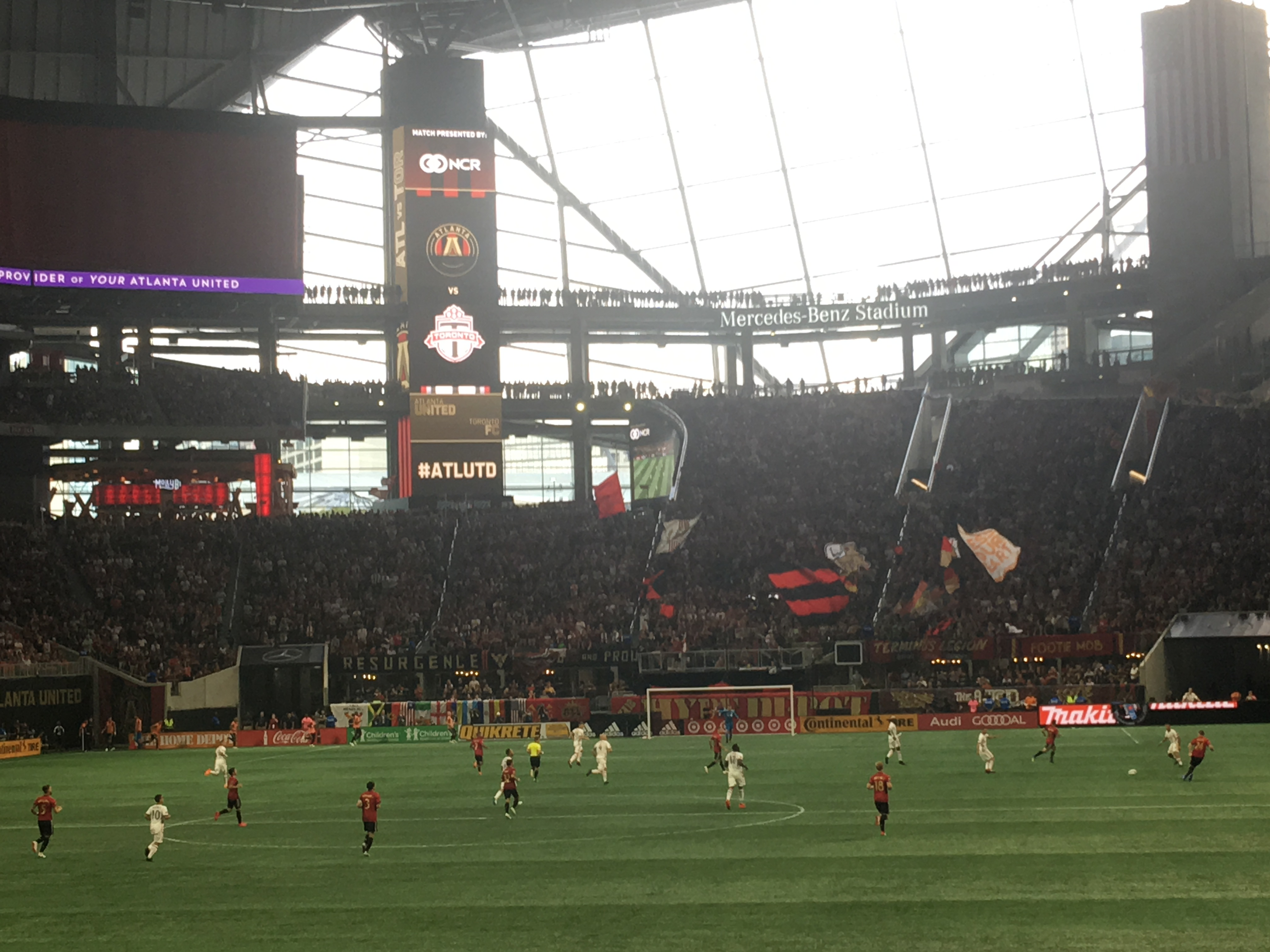 2018-08-04 - Atlanta United vs Toronto FC